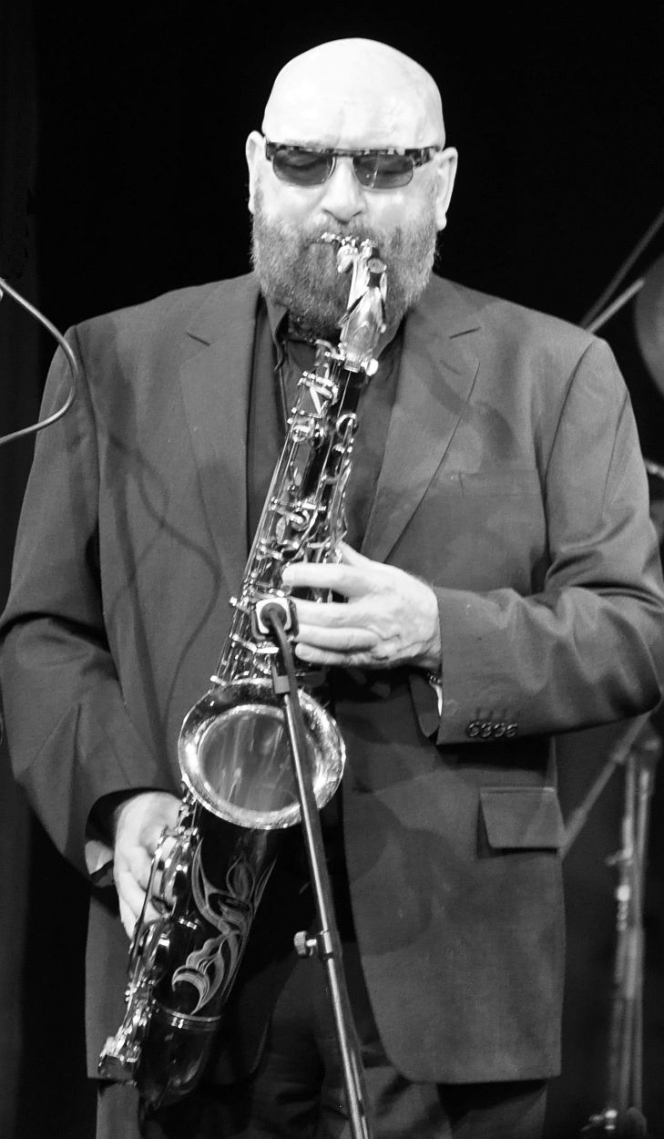 Albie Donnelly, Supercharge in Concert, Wirtshaus im Schlachthof Munich 2012